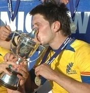 IRB Junior Rugby Cup - 2009